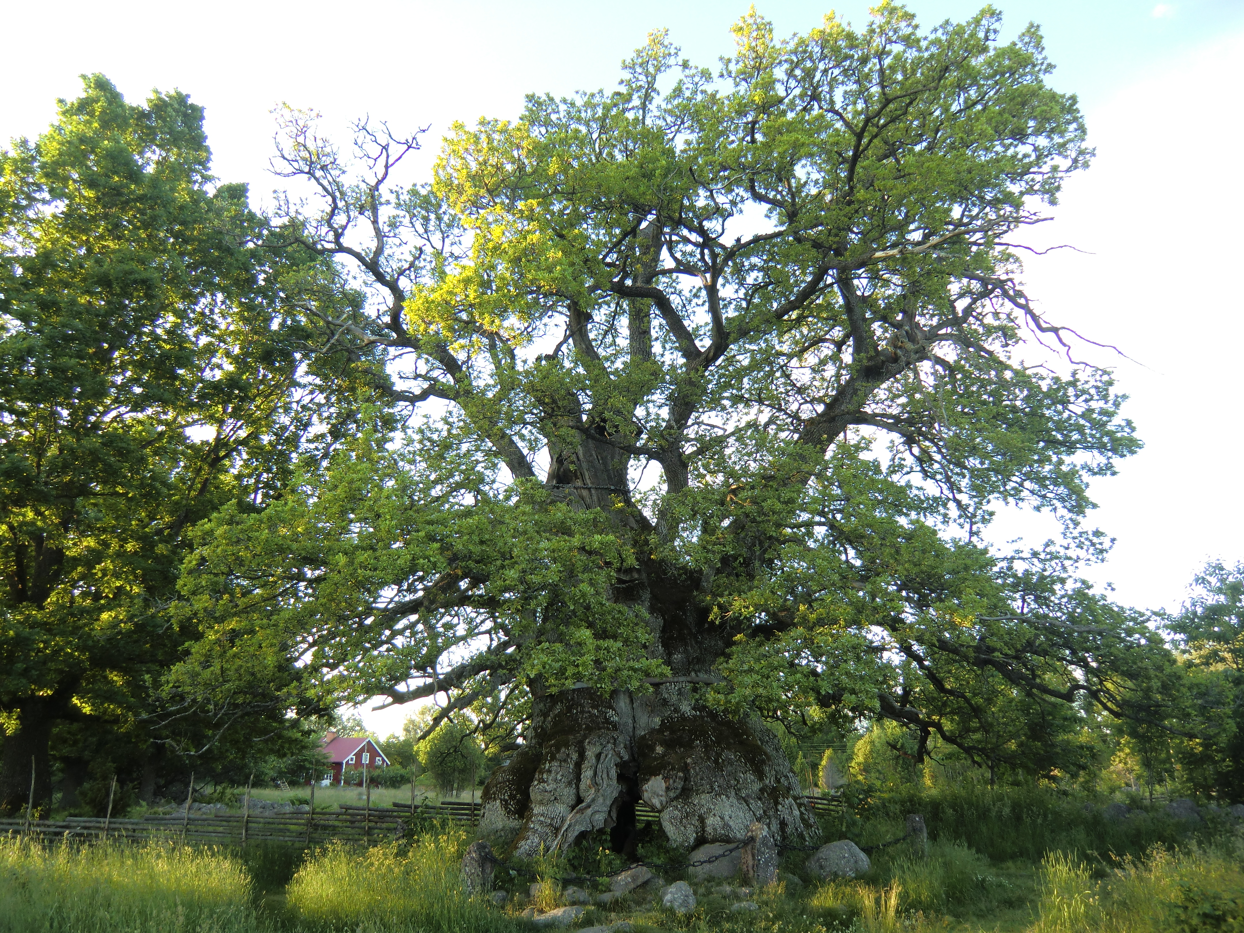 Rumskullaeken (Kvilleken). A thousand year old oak in Småland, Sweden.